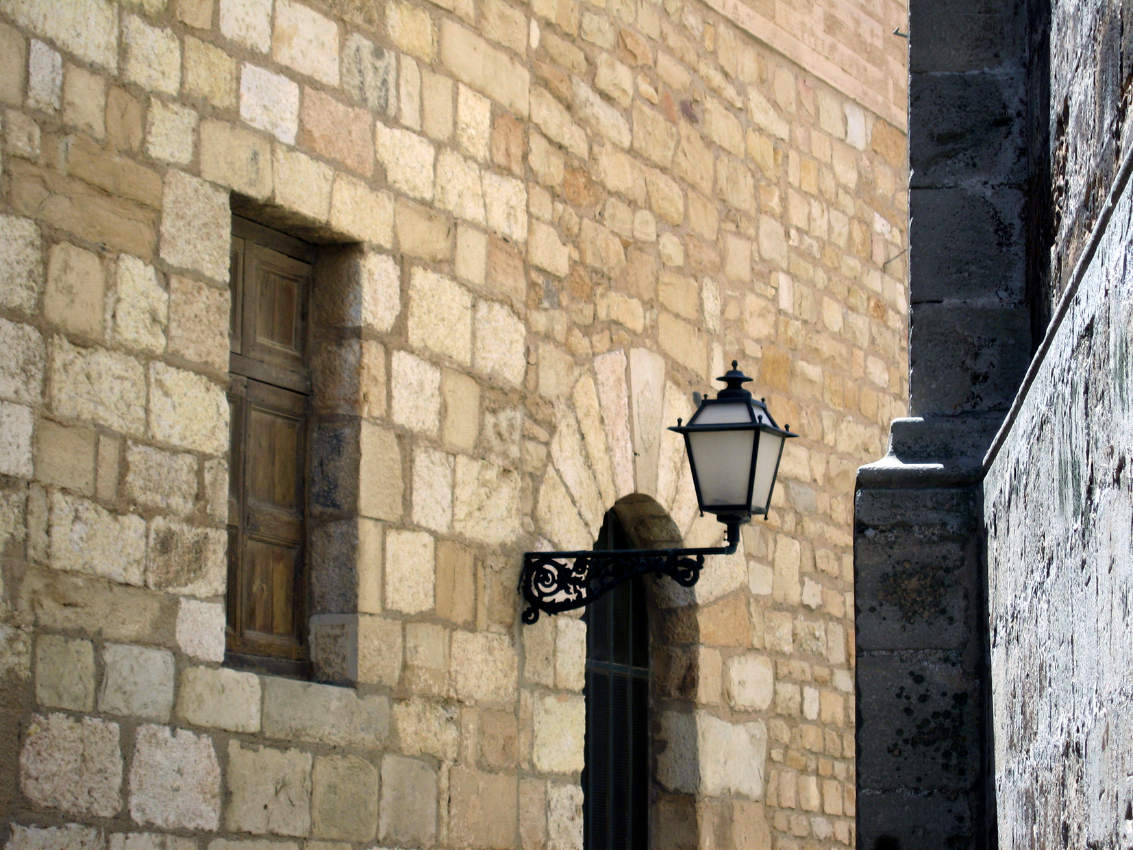 Medieval street in Montblanc in the province of Tarragona (Catalonia, Spain).